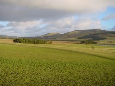 Nigel Woolford